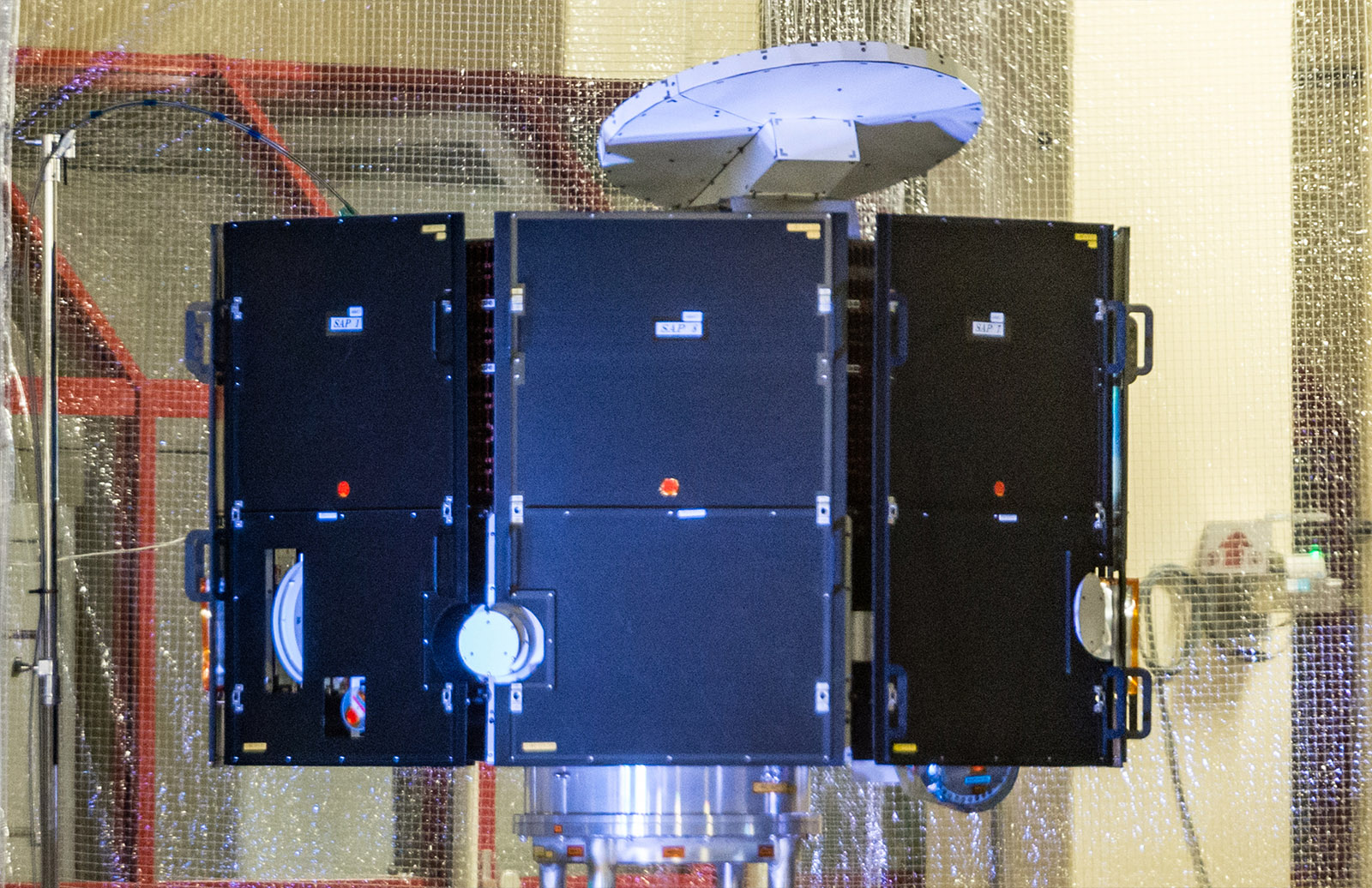 BepiColombo Mercury Magnetospheric Orbiter in ESTEC, before launch.